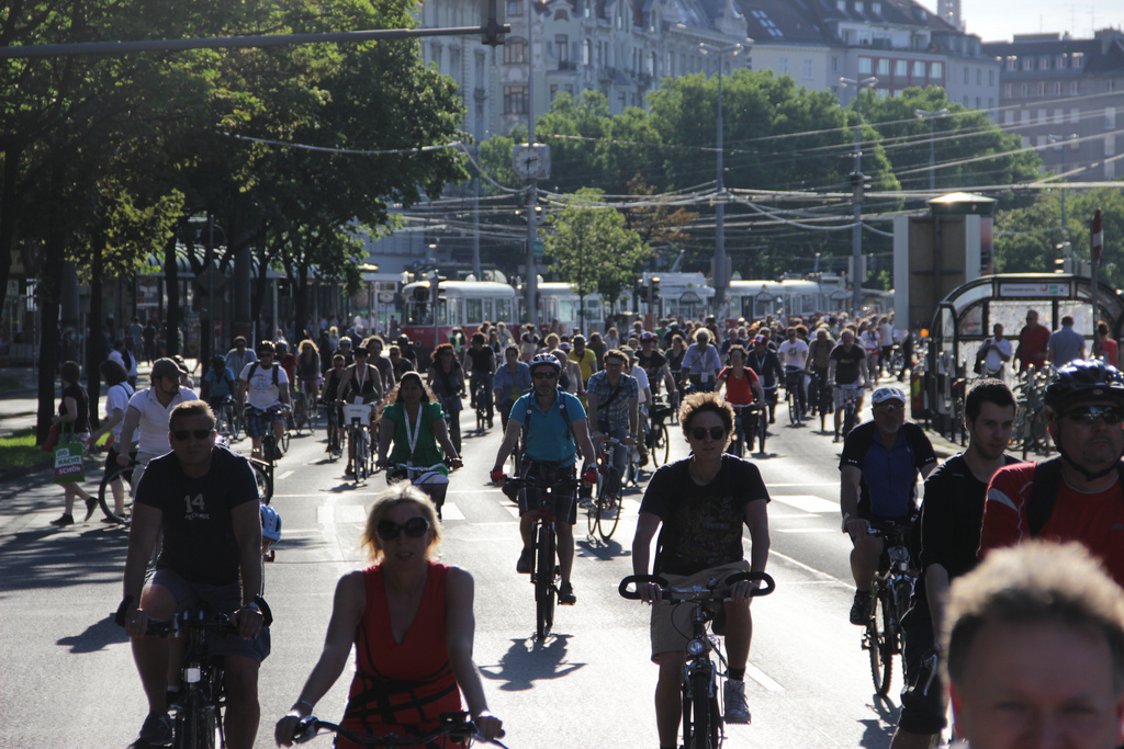 The traditional Velo-city bicycle parade in Vienna with 4200 participants.